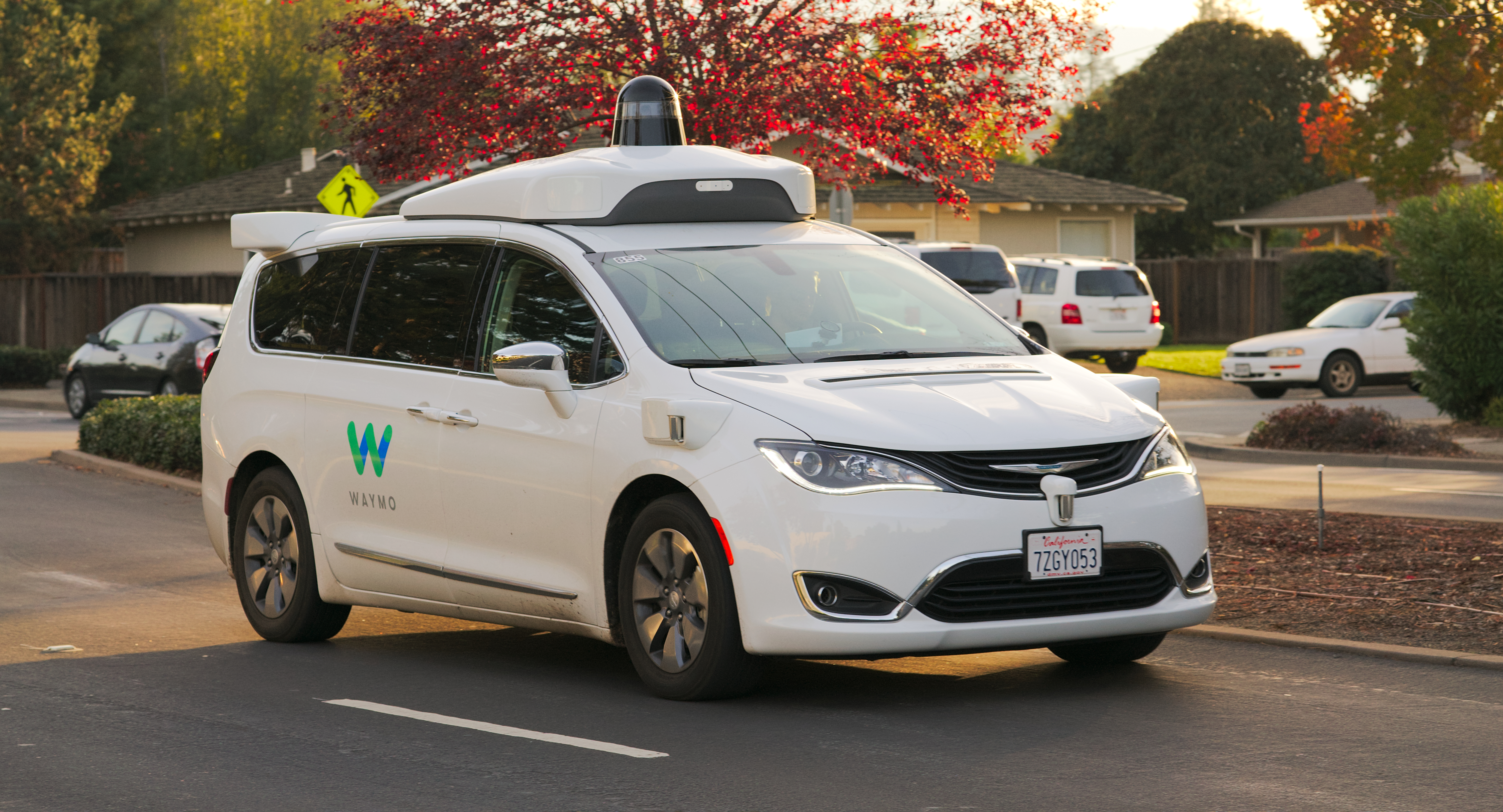 Autonomous Waymo Chrysler Pacifica Hybrid minivan undergoing testing in Los Altos, California.